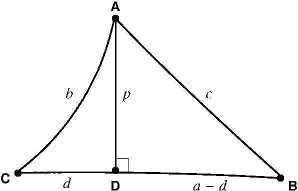 Sides and angles in general hyperbolic triangle